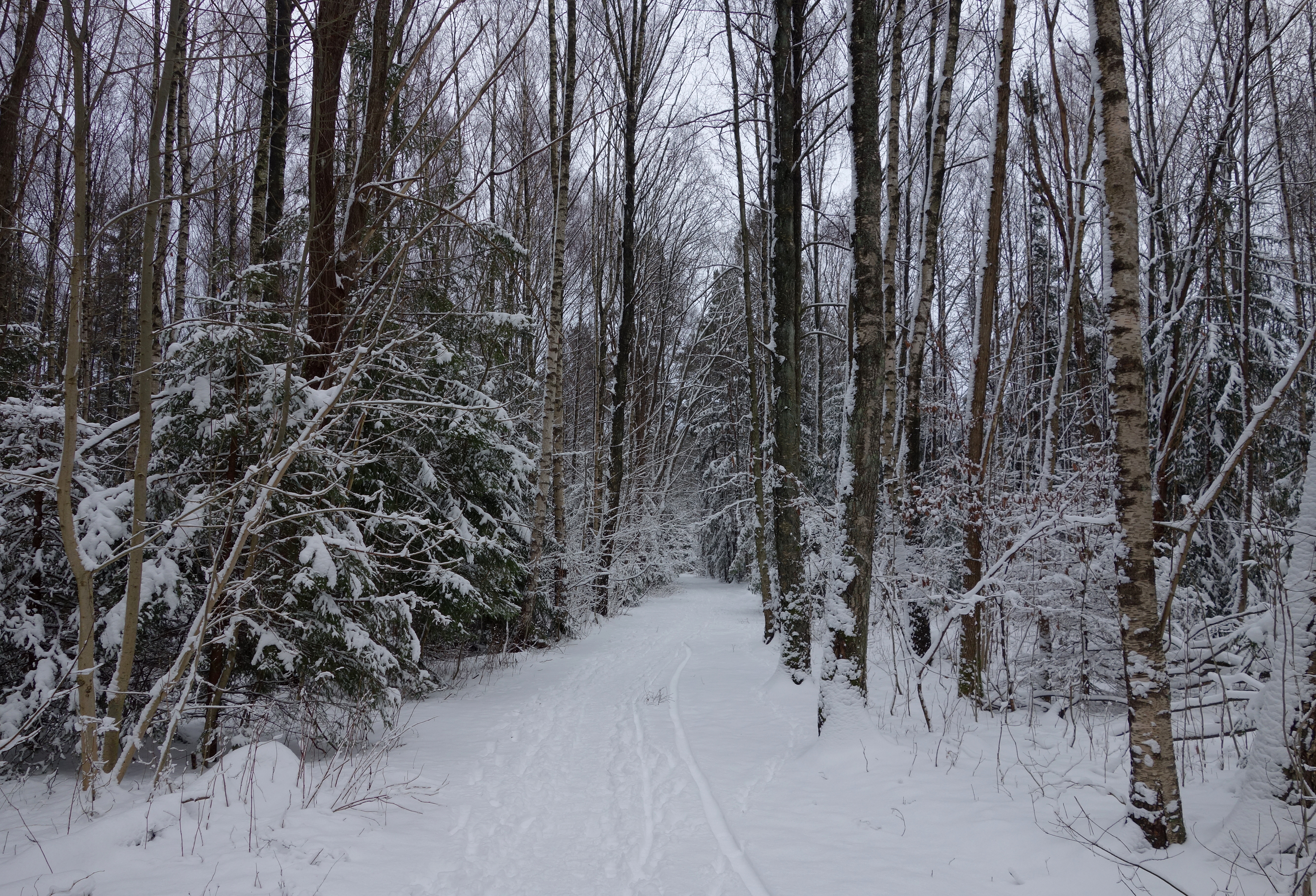 Prestegårdsskogen near Aronsletta in Nøtterøy, Vestfold, Norway